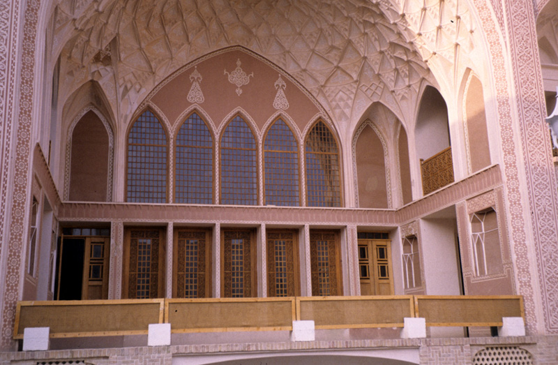 I am the photographer. Scanned from my slides.